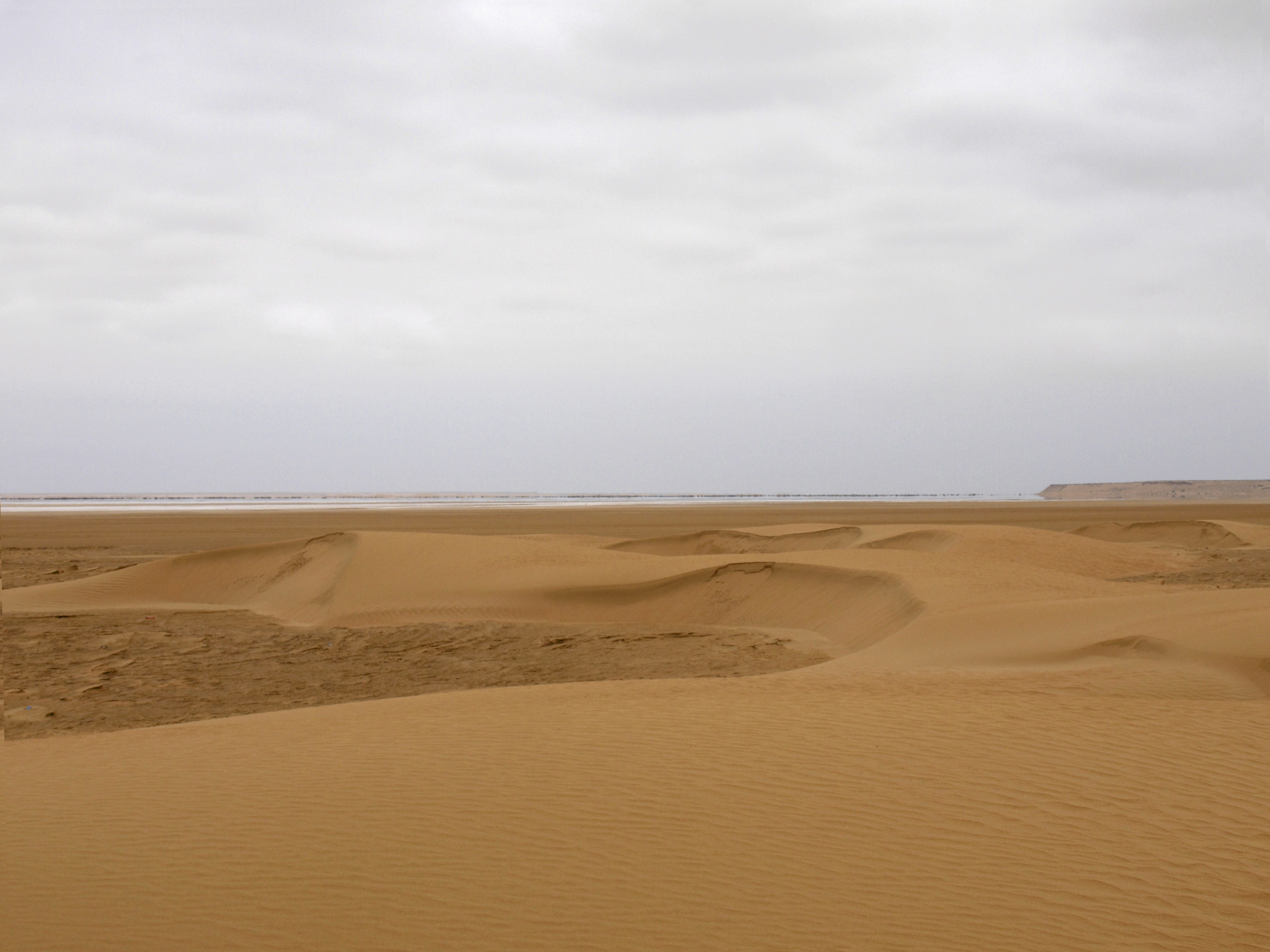 Dunes in Khenifiss Nationl Park. The Atlantic Ocean is in the background.